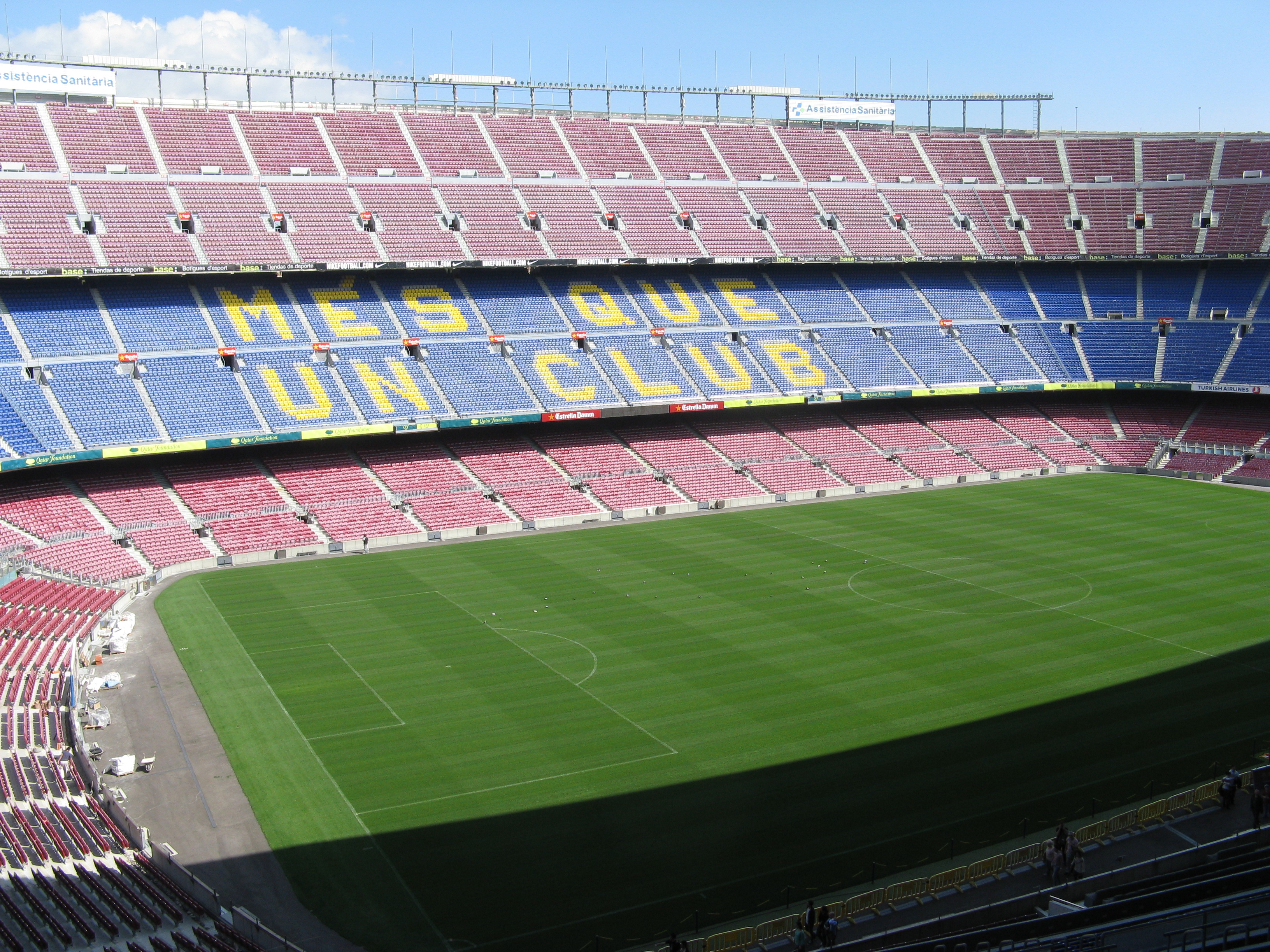 Camp Nou.